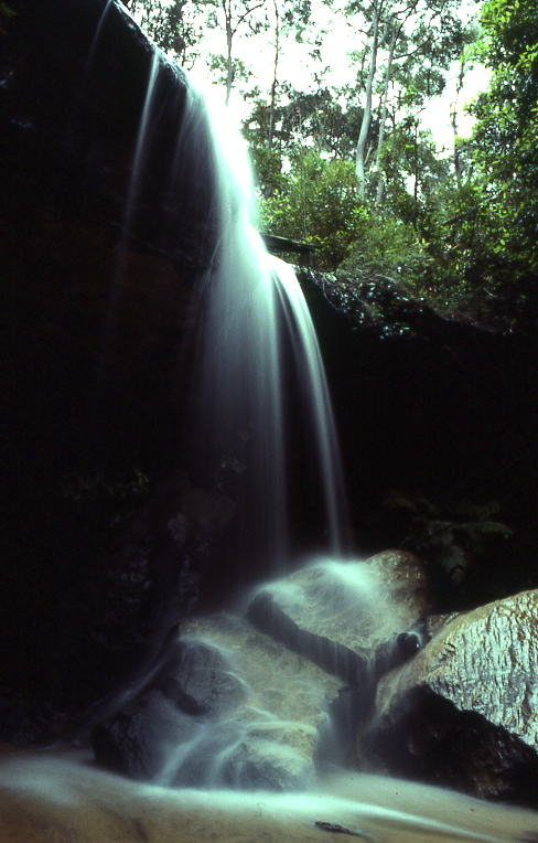 falls, australia